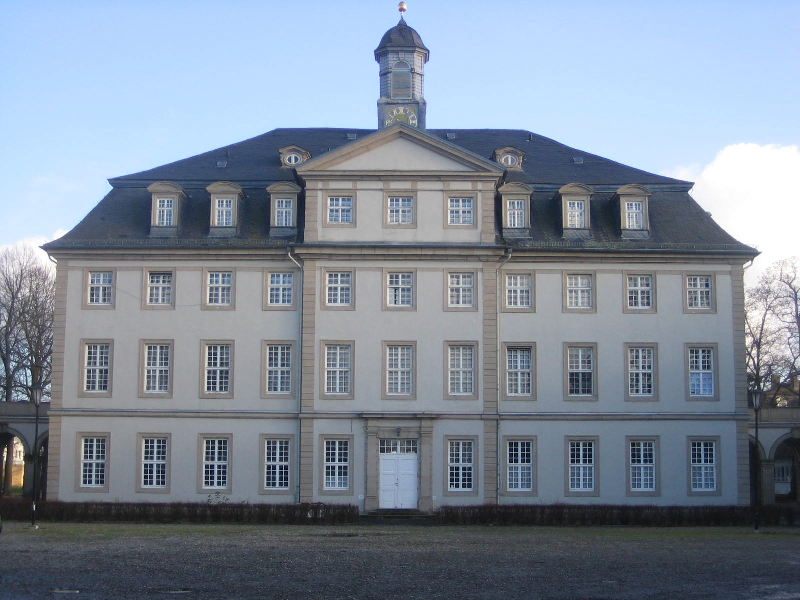 Jagd- und Lustschloss Wabern, Wabern, Hesse, Germany